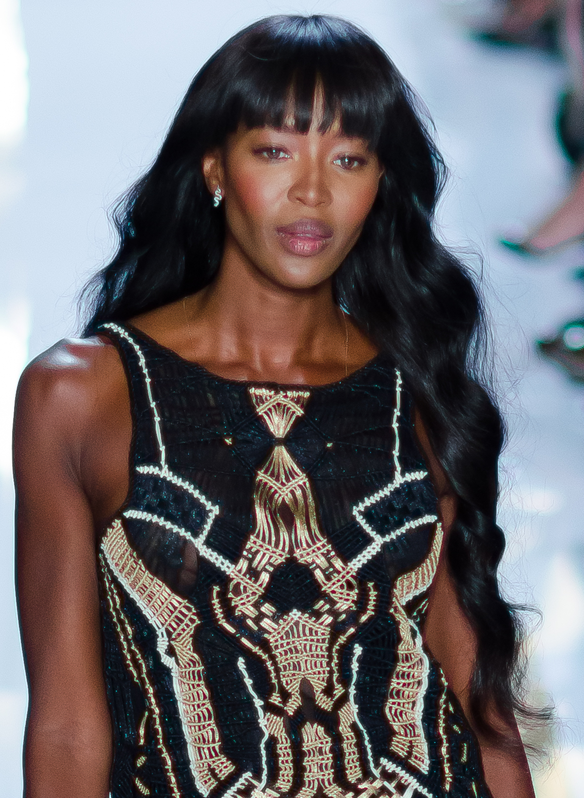 Naomi Campbell walks the runway at the Diane von Fürstenberg Spring/Summer 2014 show at New York Fashion Week, September 2013.